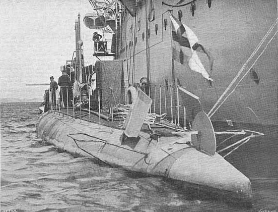 A picture of the Swedish navy Submarine Hvalen circa 1912 (cropped from larger picture)